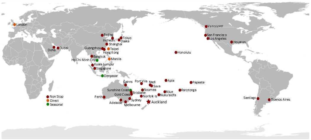 Destinations served from Auckland Airport - A Pacific centered map